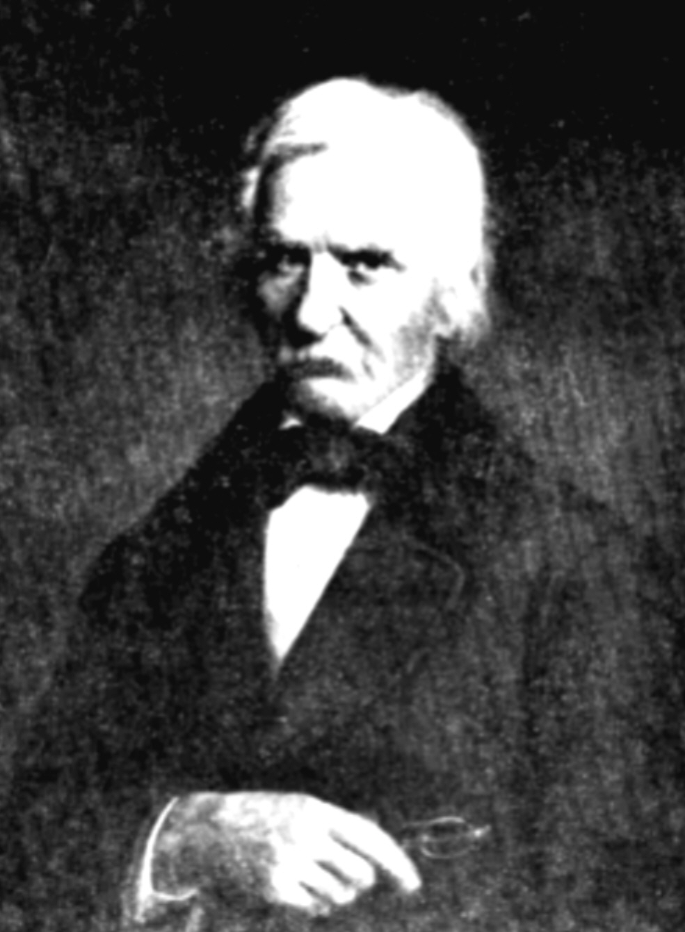 Portrait of Gheorghe Asachi